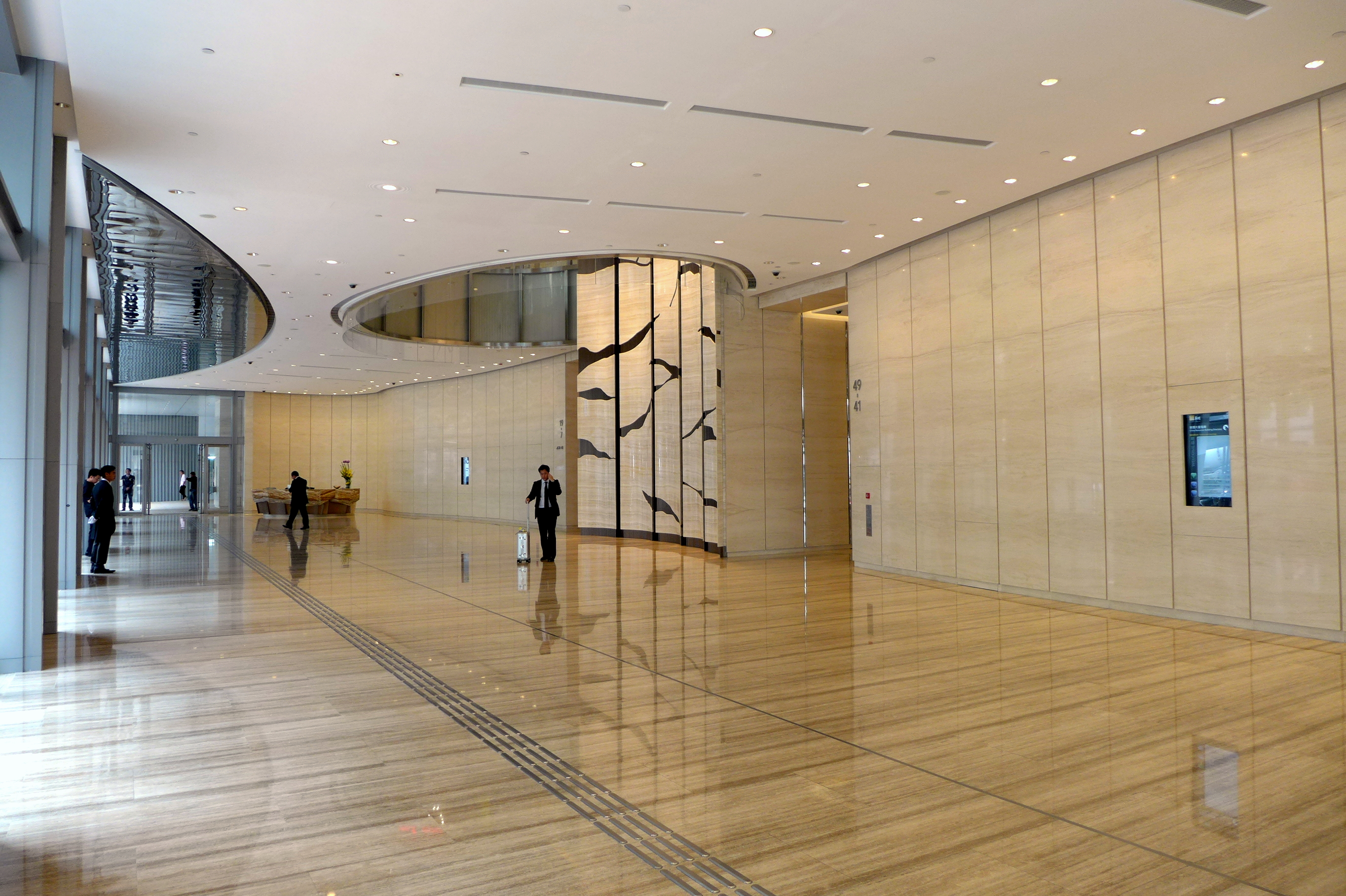 China Resources Building GF lobby